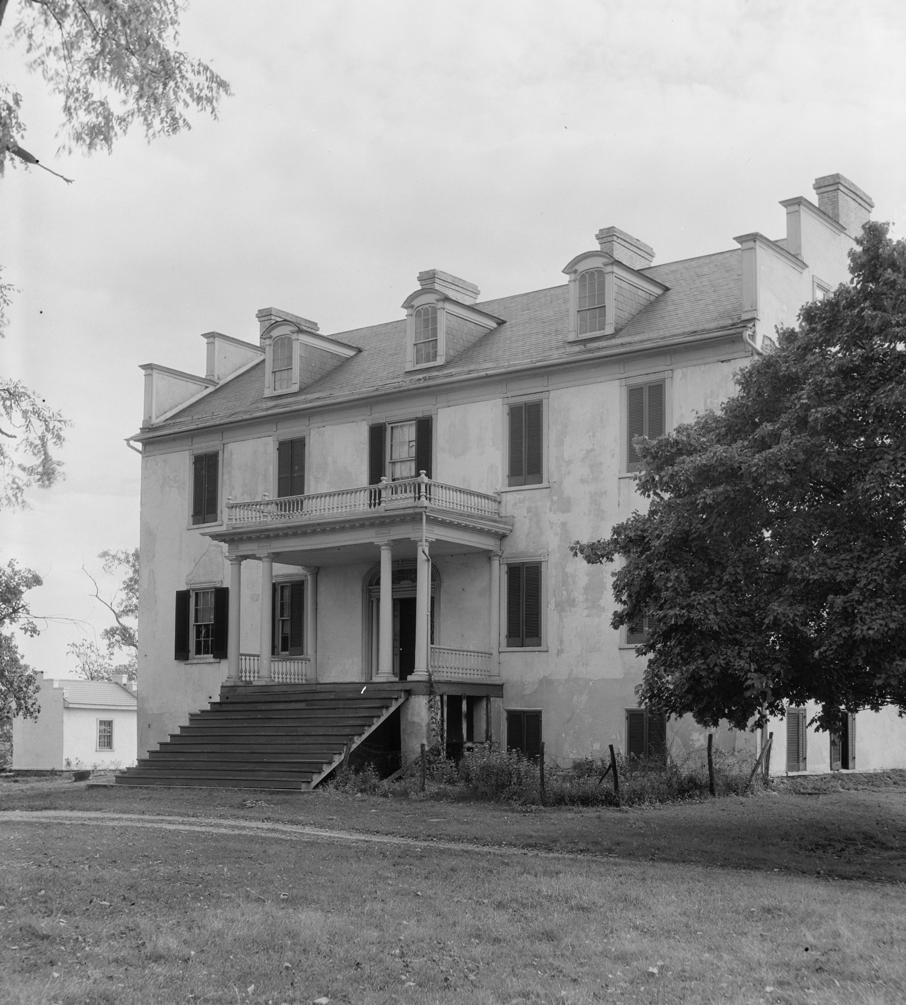 Front of Woodbury, located on County Road 1/4 near Leetown in Jefferson County, West Virginia, United States. Built in 1834, it is listed on the National Register of Historic Places.